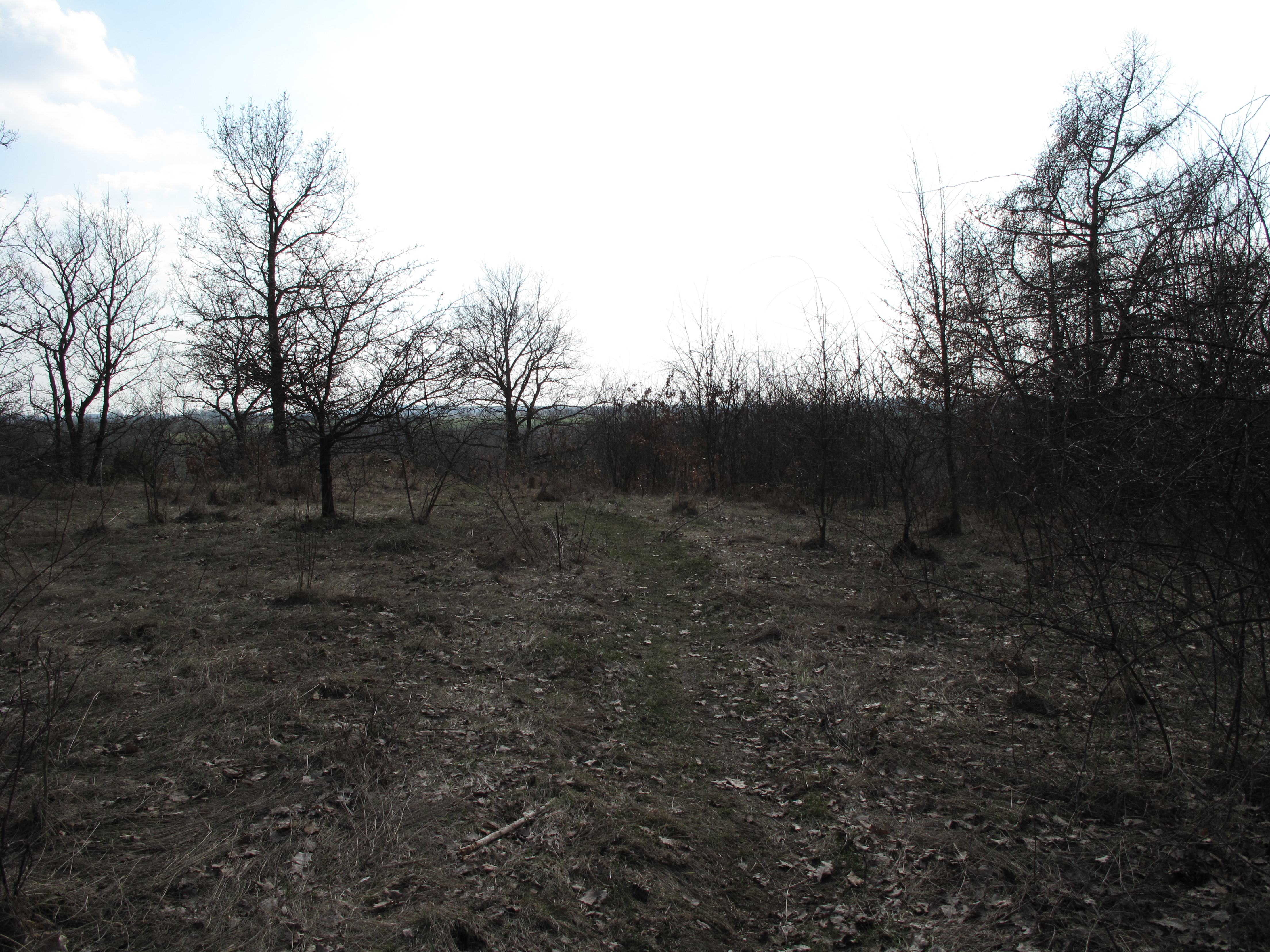 The place where mediaeval sttlement was discovered by archeological investigation. This place is called Denemark, or better the Plateau upon Denemark Mill, Kutná Hora District, Czech Republic.